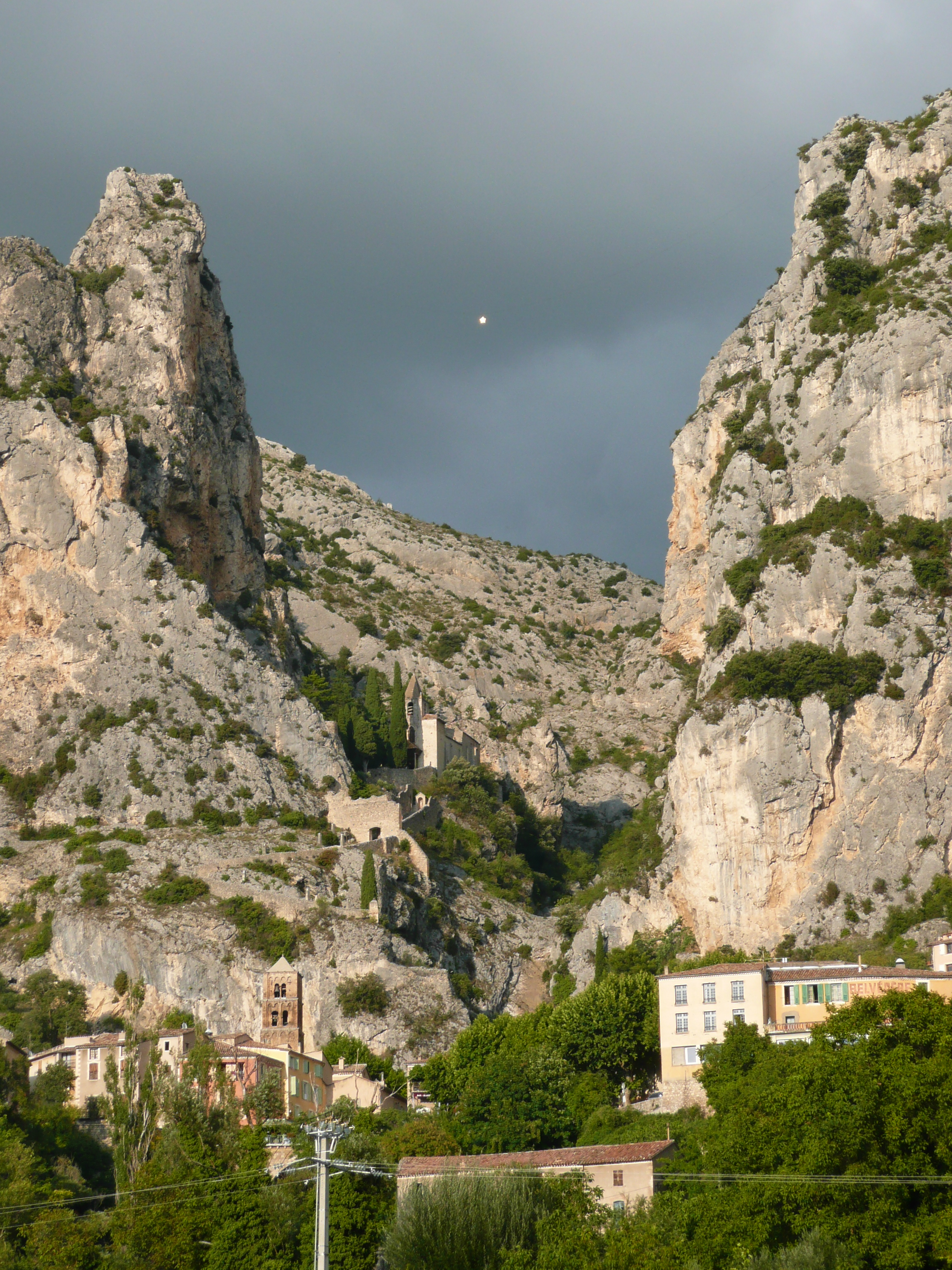 Photograph showing the suspended star contrasting with the cloudy sky